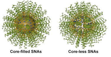 Adapted from Cutler, J. I., et al., Spherical Nucleic Acids. J Am Chem Soc 2012, 134 (3), 1376-1391. Copyright 2012 American Chemical Society.